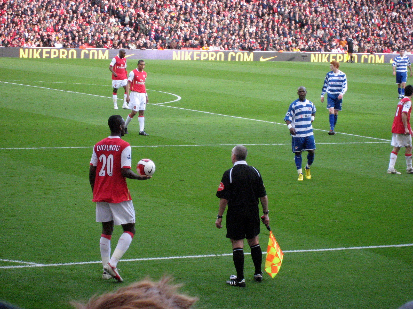 I think the linesman makes Djourou look like a giant